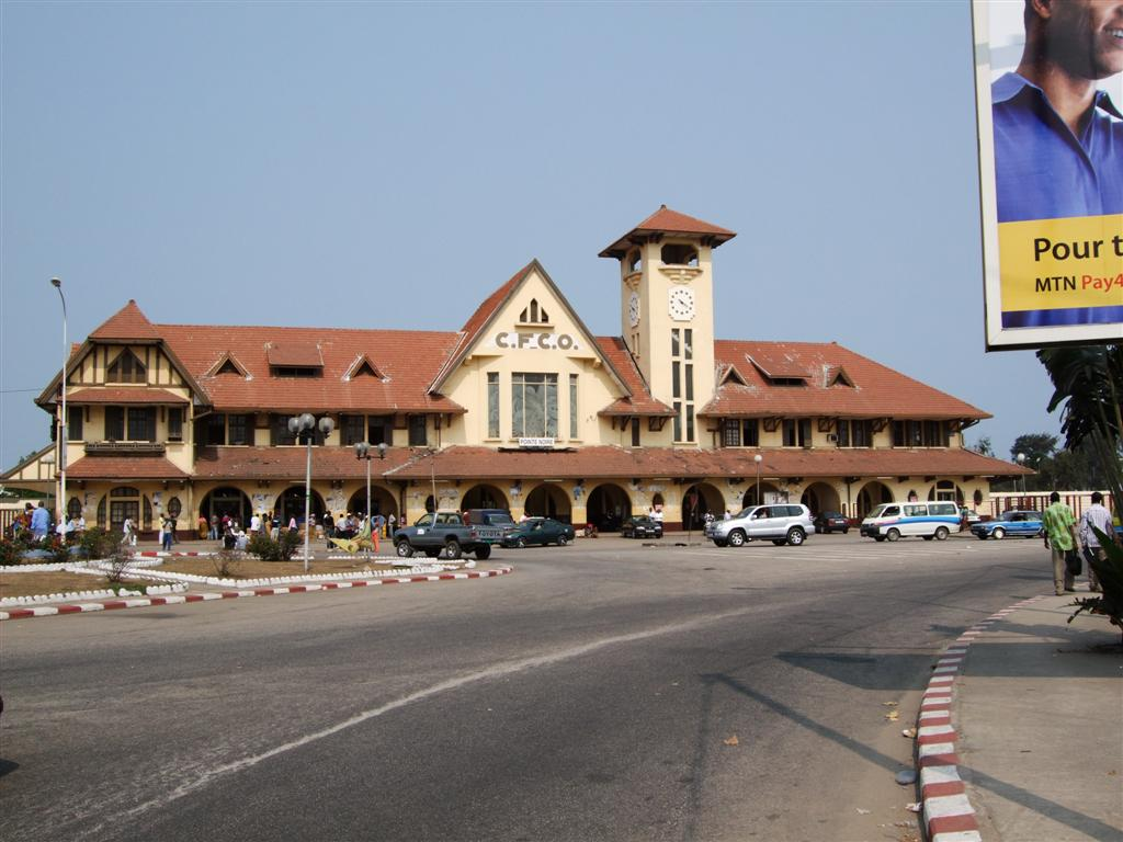 Pointe-Noire Railway station — in Pointe-Noire, the Republic of the Congo.